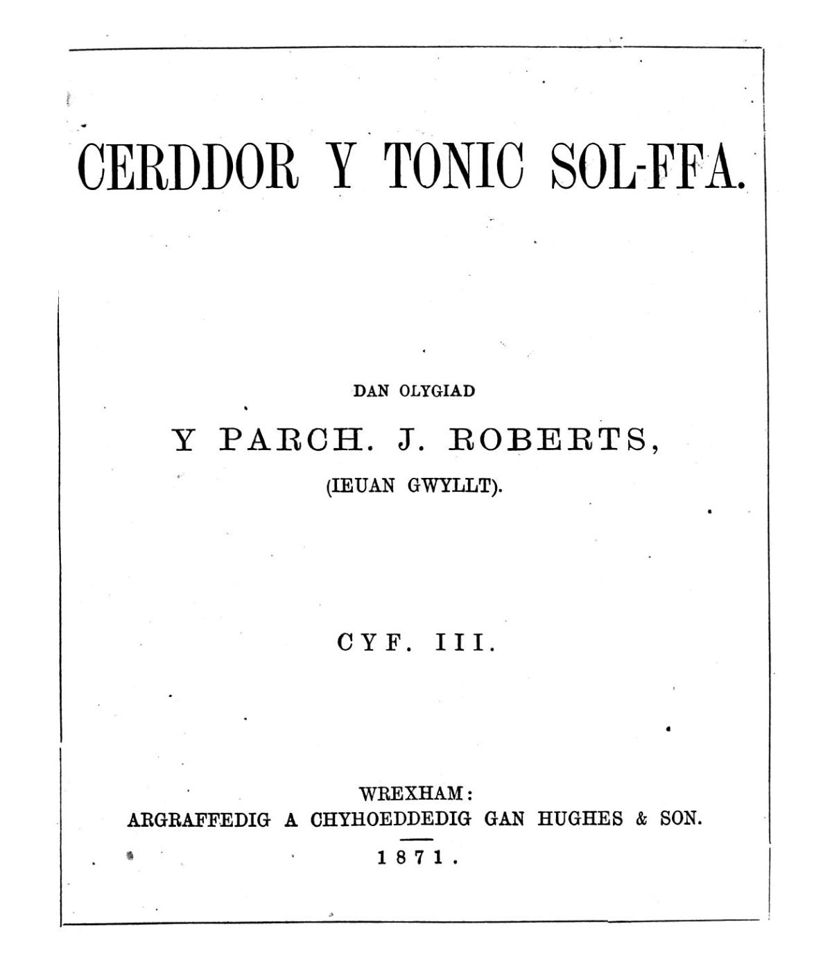 A monthly Welsh-language music periodical that was intended for use in tonic sol-fa lessons. The periodical's main contents were compositions and articles on music and musicians alongside news for tonic sol-fa classes. The periodical was edited by the musician, John Roberts (Ieuan Gwyllt, 1822-1877), except between April and June 1869 when the musician Eleazer Roberts (1825-1912) was editor. Associated titles: Cerddor Sol-ffa (1881).